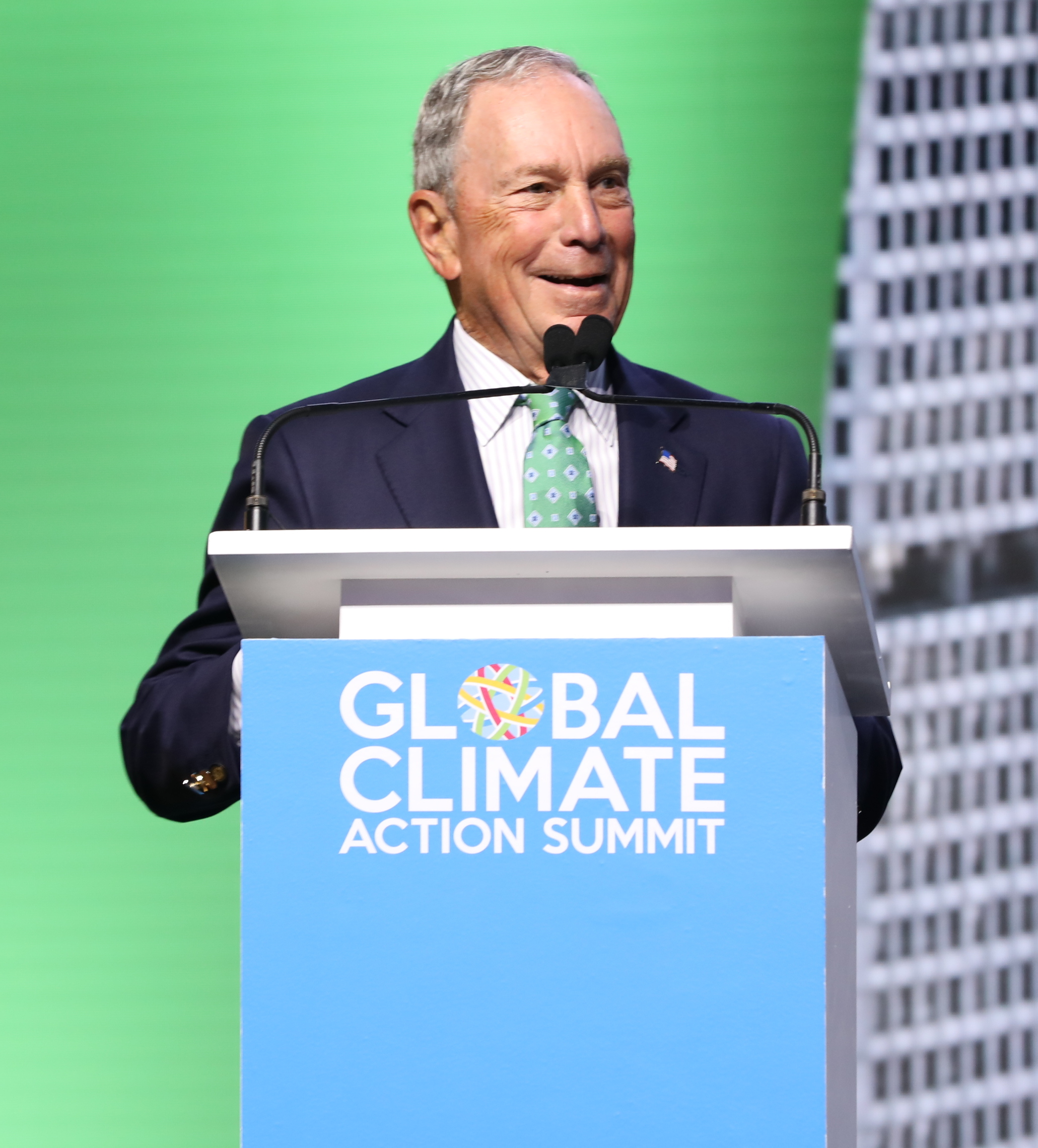 Credit: Global Climate Action Summit, Nikki Ritcher Photography